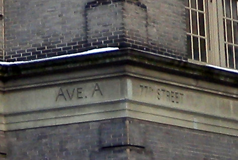 Looking northeast across York and 77th on a cloudy afternoon, at inscription on southwest corner of PS 158, indicating that this was once Avenue A.